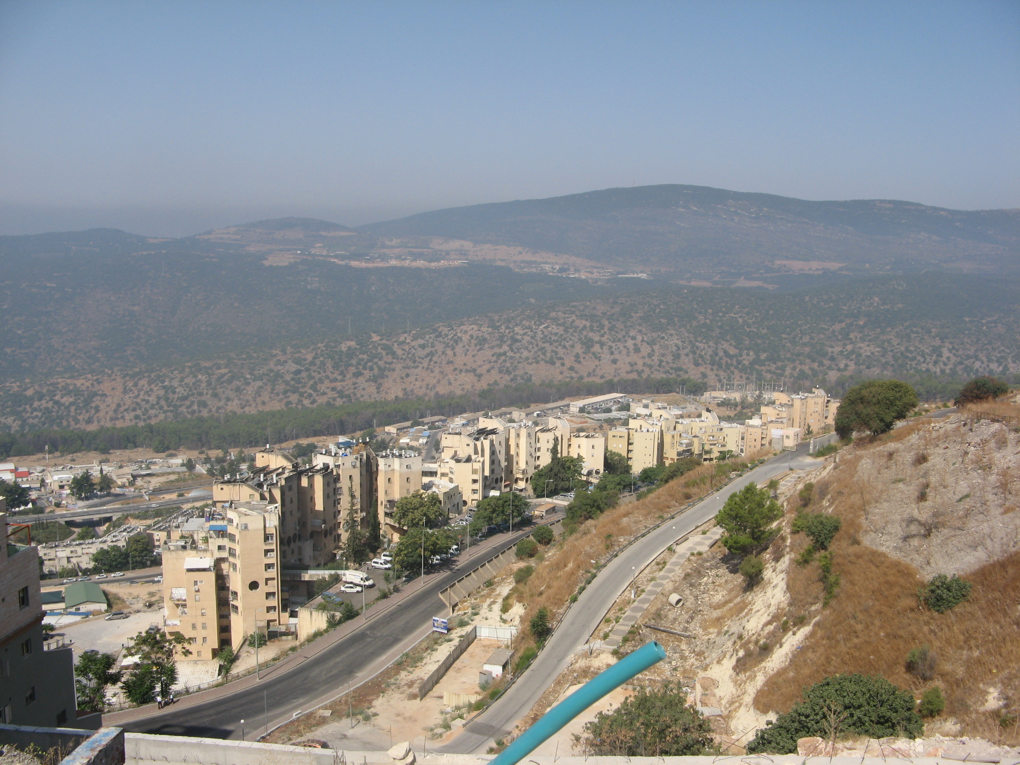 Lower area of new Safed. Chabad Quater